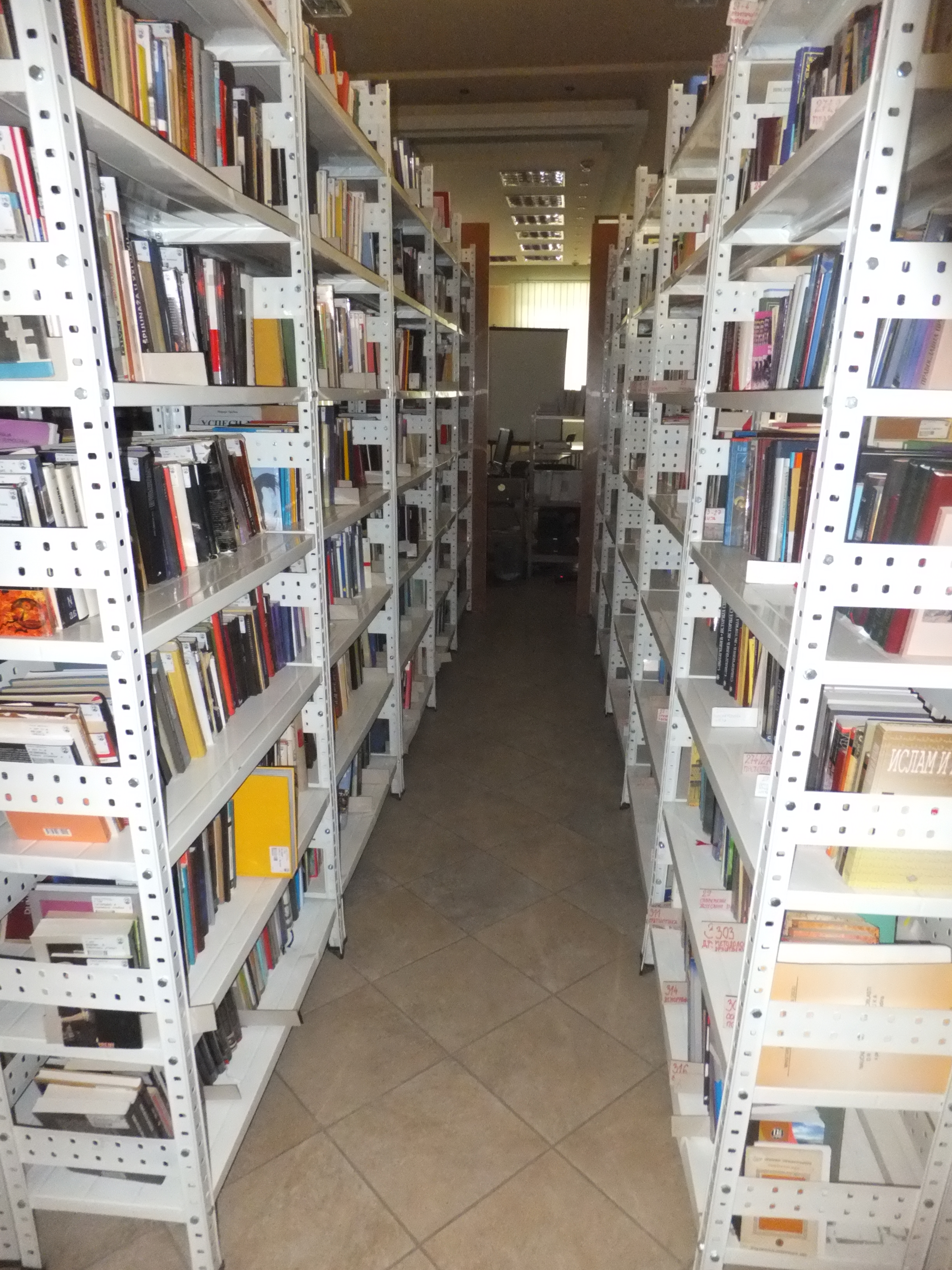 City library of Ruma